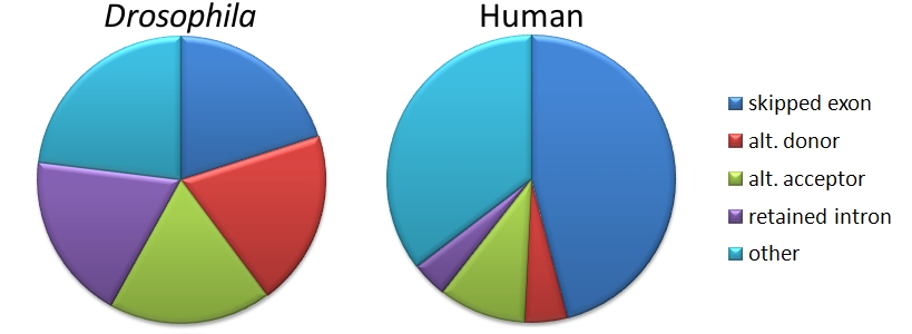 Frequency of types of alternative splicing events Relative frequencies of types of alternative splicing events differ between vertebrates and invertebrates. Vertebrates generally have a preponderance of skipped or "cassette" exons; splicing events in invertebrates are more evenly distributed among the basic types. Data from Michael Sammeth; Sylvain Foissac; Roderic Guigó (8 August, 2008). "A general definition and nomenclature for alternative splicing events". PLoS Comput Biol. 4: e1000147.